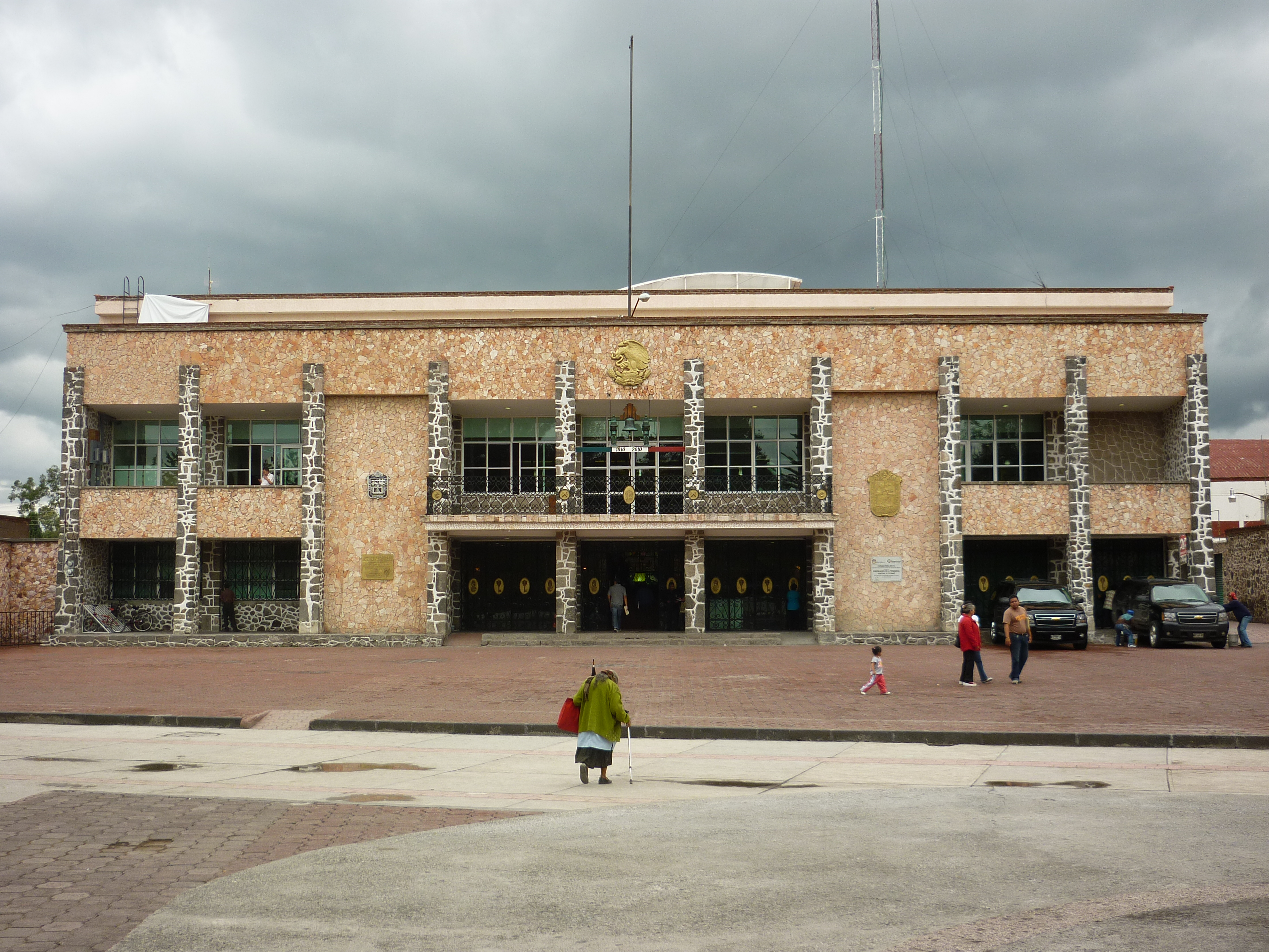 Tecamac's City Hall, State of Mexico